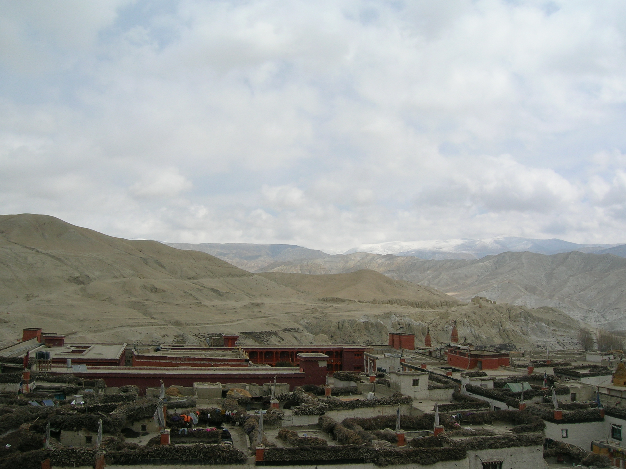 The roofs of Lo Manthang the capital of The Mustang Kingdom.